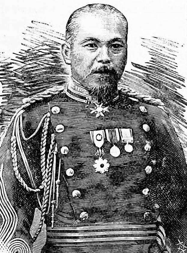 Major-General Odera